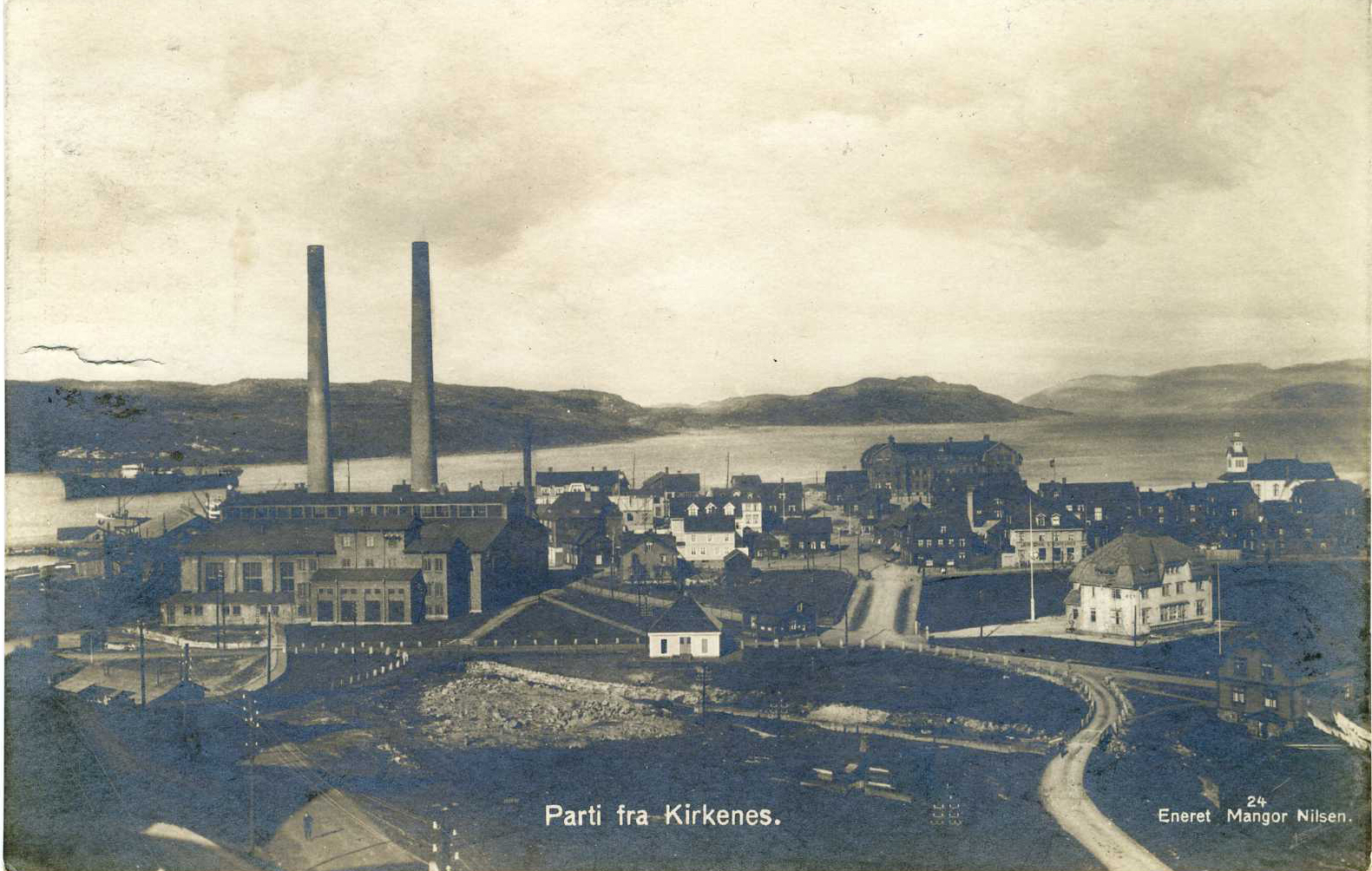 back of card